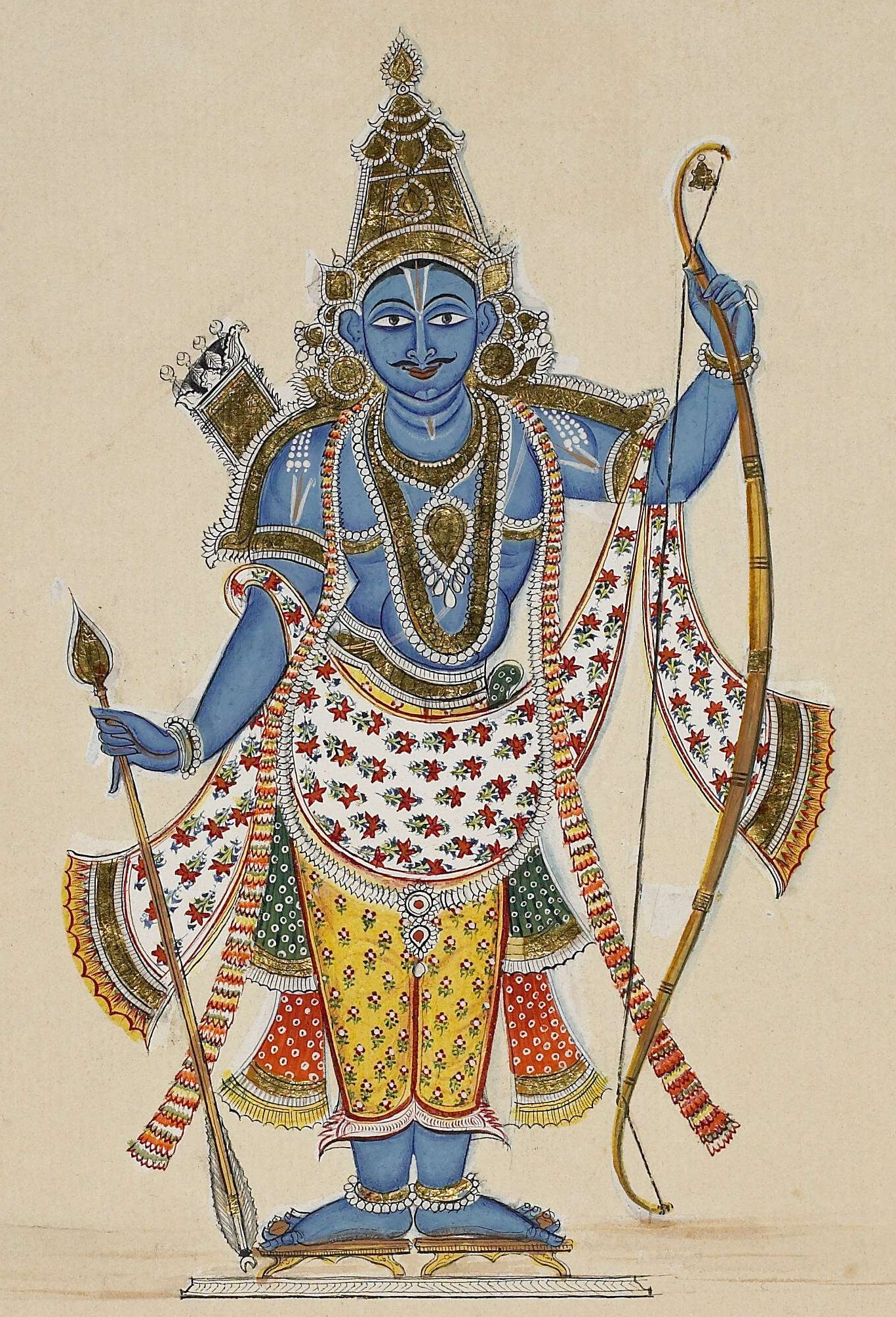 Rama is depicted blue-skinned and carrying a strung bow with a quiver full of arrows on his back and a single arrow in his right hand. On laid and water-marked European paper with a fleur de lys. This is elsewhere in the series dated 1816. Painted in South India (probably Thanjavur or Tiruchchirapalli)